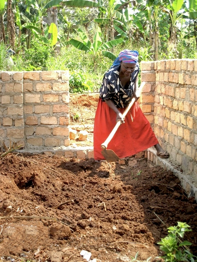 Gertrude is the head of the Community Organizing Committee in Gita and helped construct the Academy for her eight grandchildren.